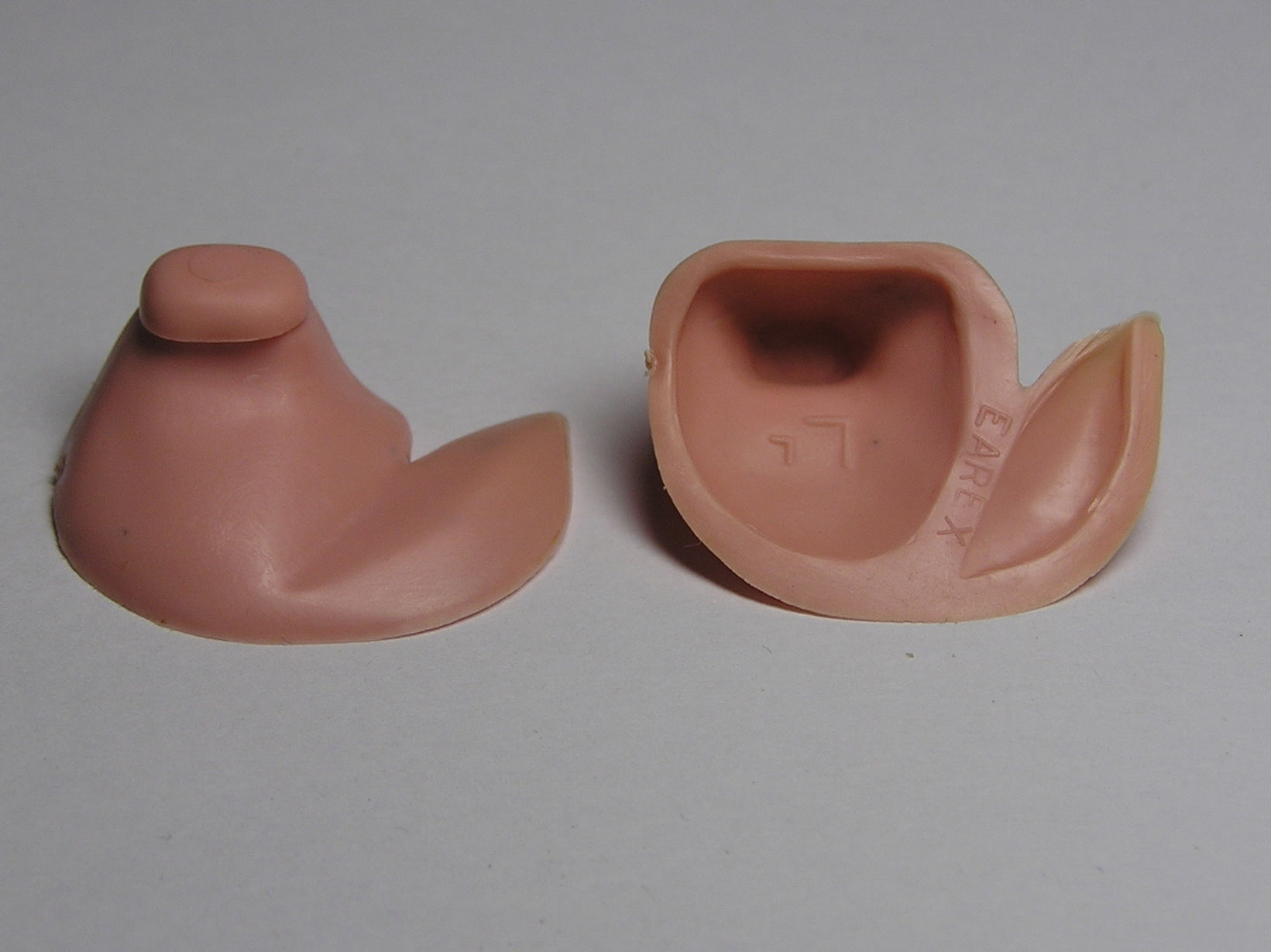 Earplugs for swimming, dust exclusion, etc. These may be the type sold in various countries under the brand name "Doc's Proplugs". Photo taken by User:Light current on 21 May 2006 using Olympus c745 on Auto exposure.